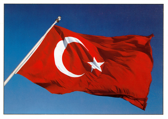 Flag of Turkey